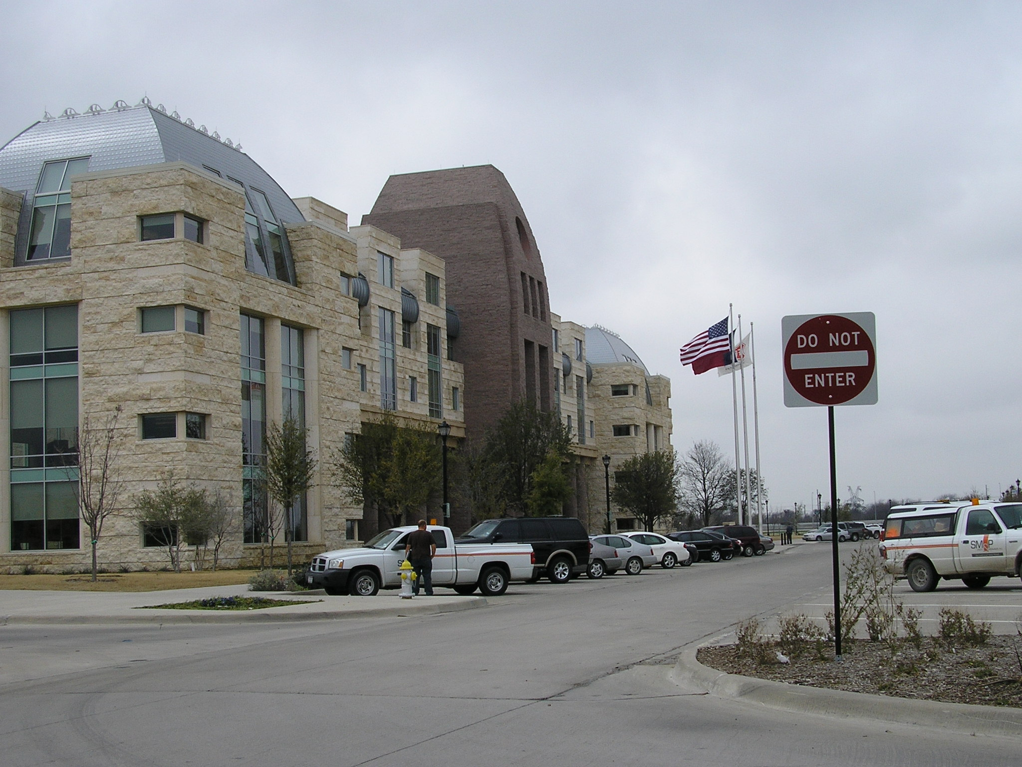 Frisco, Texas - City Hall